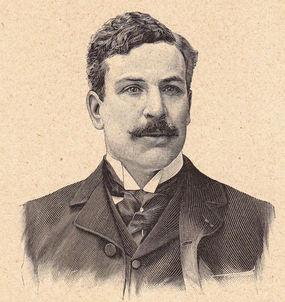 French playwright Maurice Donnay (1859-1945)